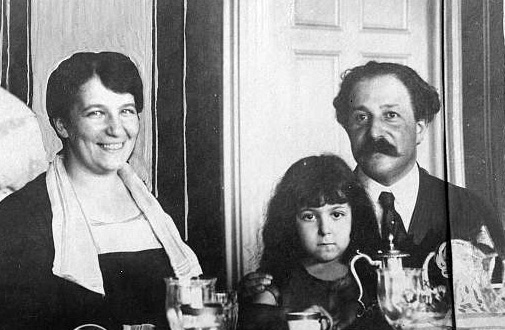 Pierre Monteux with his second wife and their daughter, circa 1919. (Date of image not known, but the child was born in 1913, and so 1919 looks about right.)